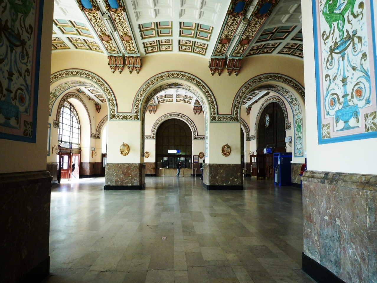 The inside in building of Istanbul Haydarpaşa Terminal